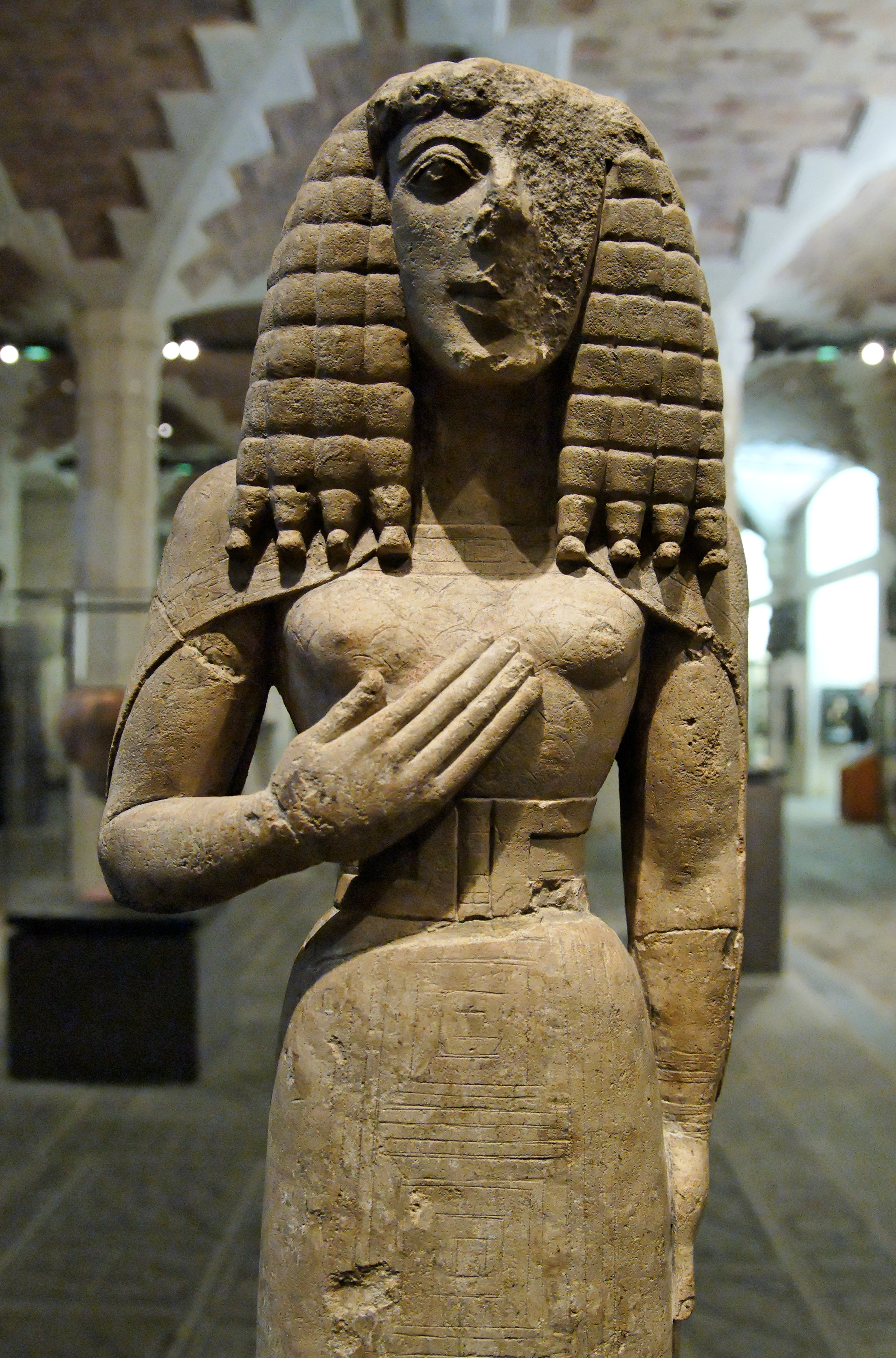 So-called Lady of Auxerre, a female statuette in the Daedalic style. Limestone with incised decoration, formerly painted, ca. 640–630 BC, made in Crete?